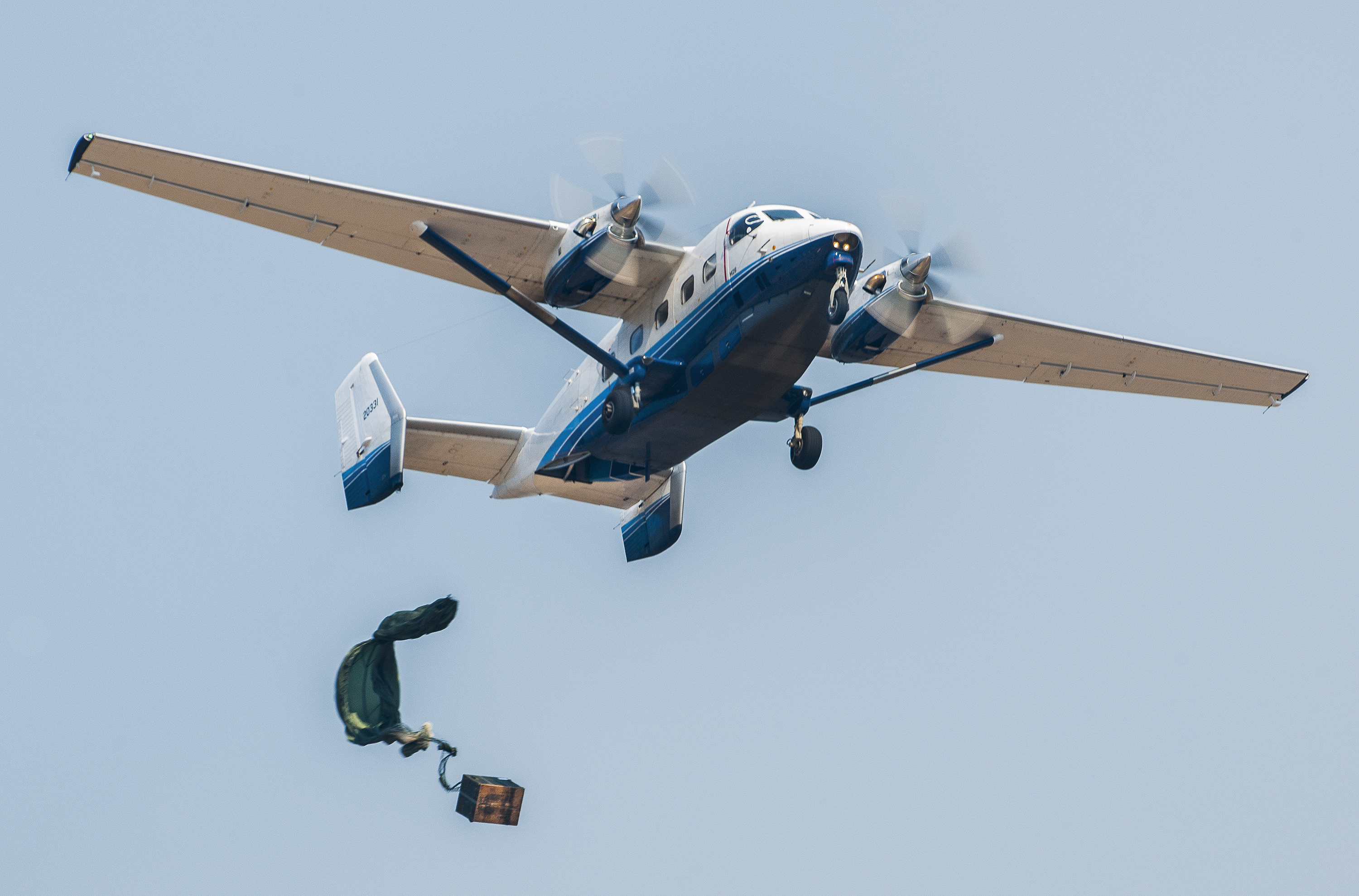 A parachuted bundle soars out of the back of a C-145 Skytruck during an airdrop mission over the Eglin Air Force Base range. New and prior-qualified loadmasters release sandbags and 300-pound boxes from the 919th Special Operations Wing aircraft to as part of their initial airdrop or proficiency training. The 919th Special Operations Logistics Readiness Squadron’s Airmen are responsible for packing, securing and recovering the equipment and parachutes. (U.S. Air Force photo/Sam King) Unit: 919th Special Operations Wing